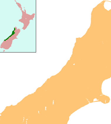 Locator map for West Coast Region, New Zealand